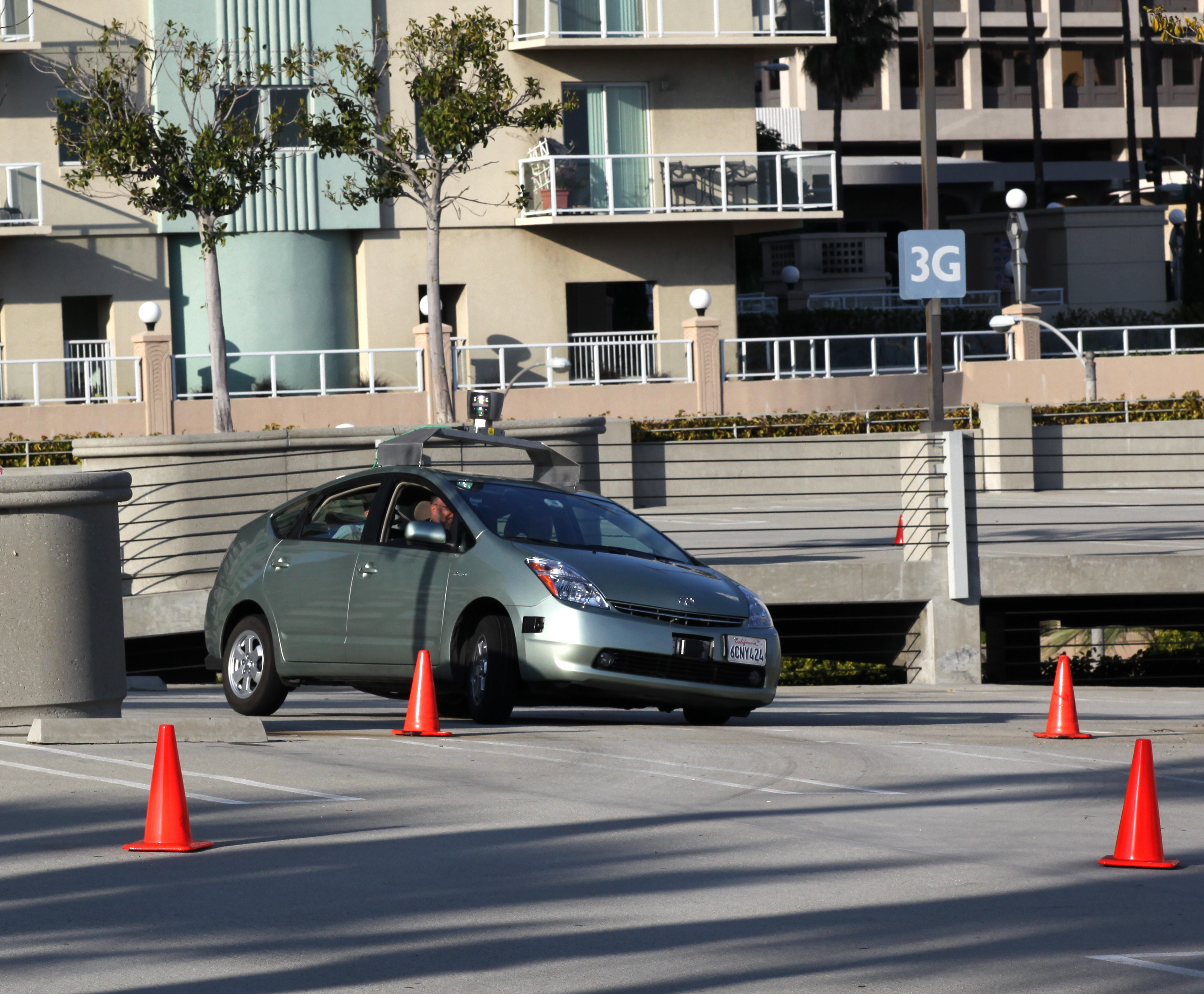 Google driverless car operating on a testing path